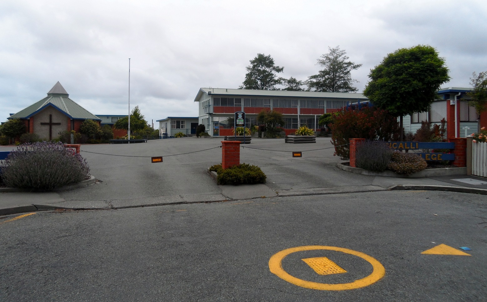 Wellington Street entrance of state-integrated Catholic high school Roncalli College in Timaru, New Zealand in 2015